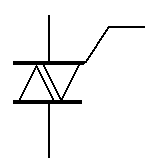 Triac schematic symbol